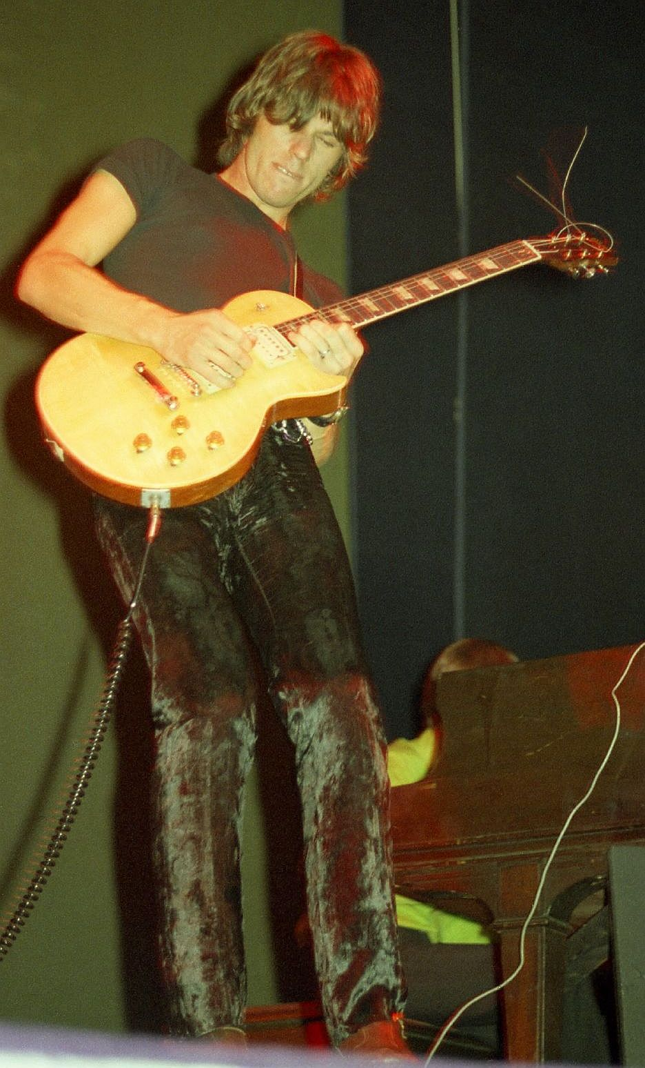 Jeff Beck Group, Fillmore East, October 19, 1968 Jeff Beck, Rod Stewart, Ron Wood, Mick Waller, Nicky Hopkins